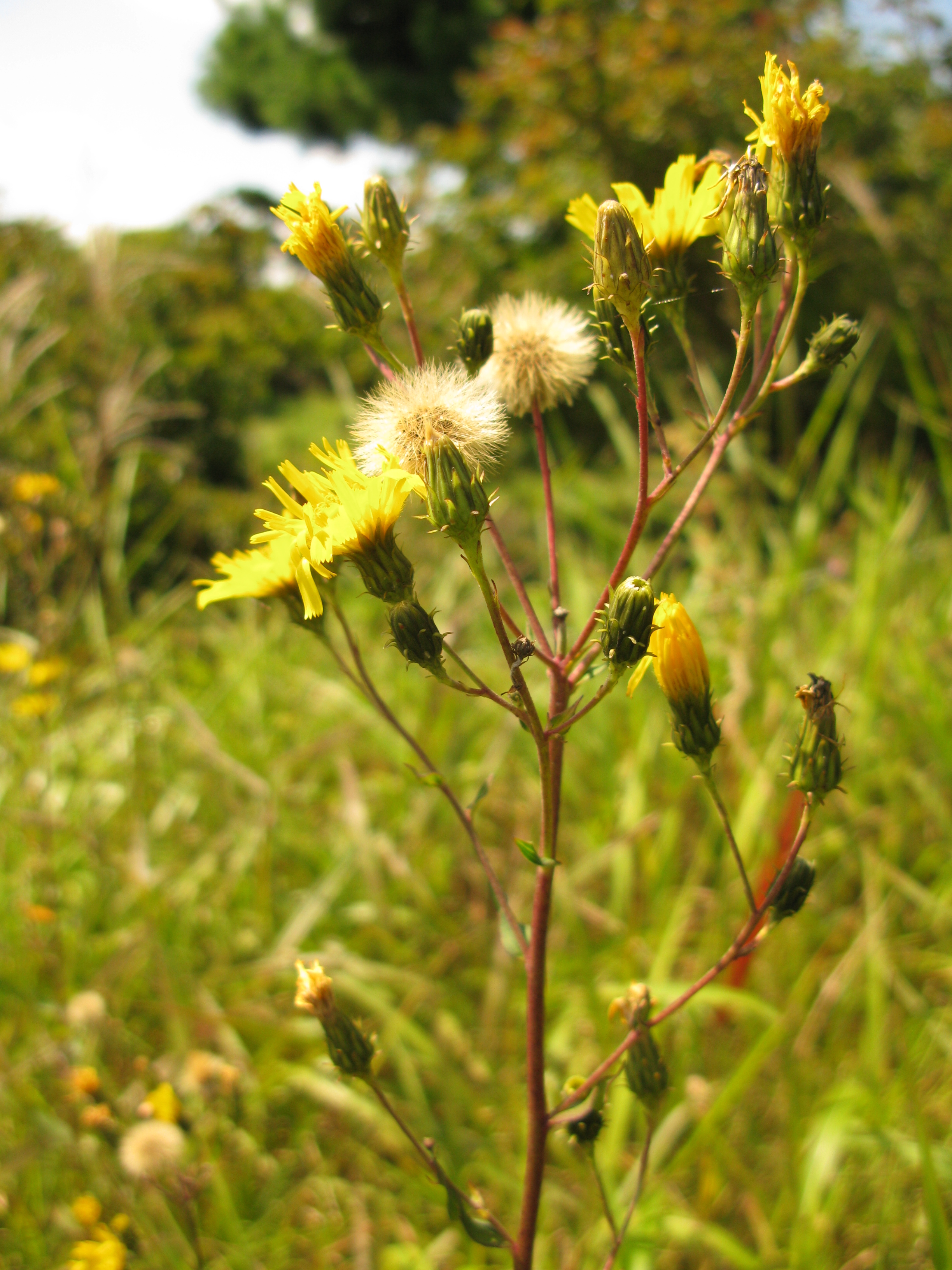 Hieracium umbellatum, Aizu area, Fukushima pref., Japan